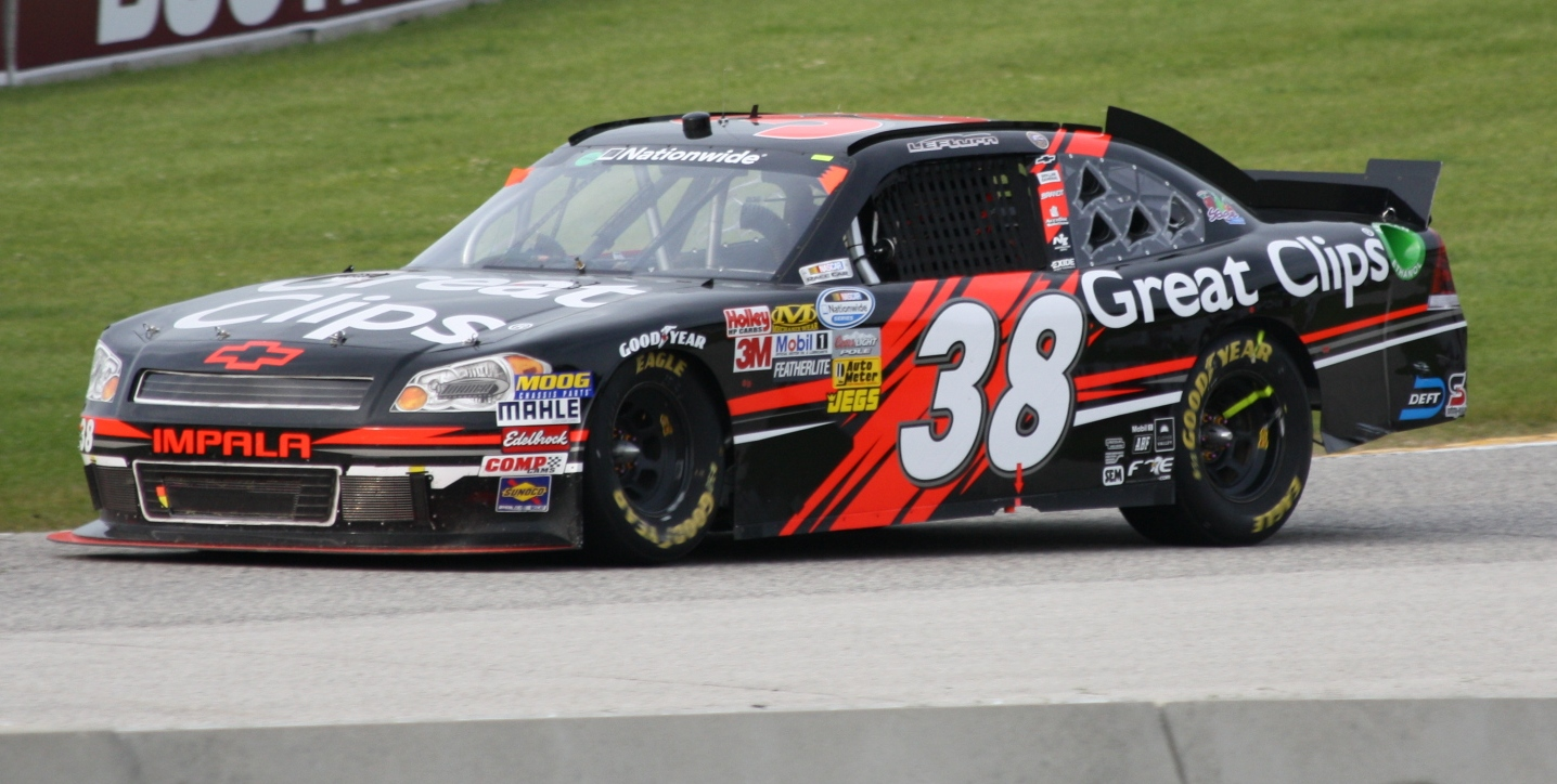 NASCAR driver Jason Leffler racing his stock car at Road America at the 2011 Bucyros 200 Nationwide Series race.